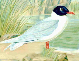 Mediterranean Gull, public domain from 1905 enc